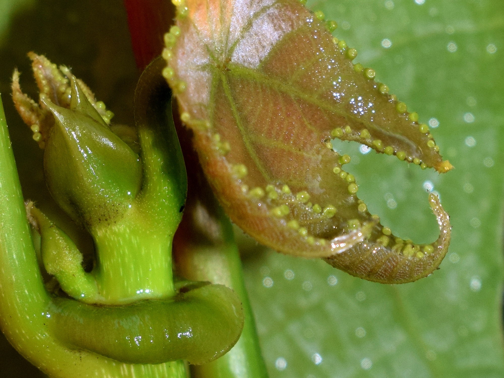 Macaranga triloba; young leaf close up, showing prominent marginal nectaries. From Bogor, West Java, Indonesia.